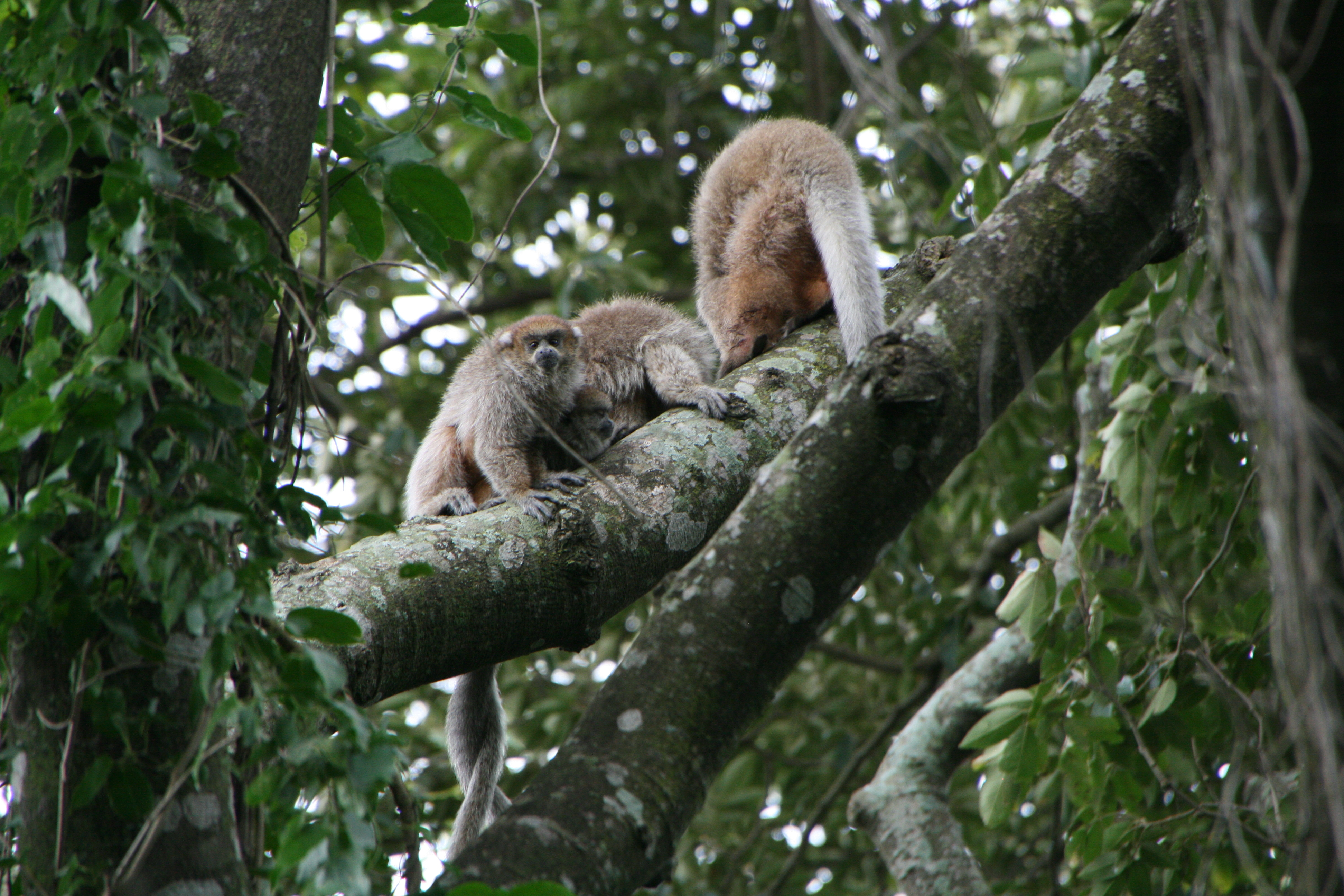 White-eared titi (Callicebus donacophilus) group in Bolivia